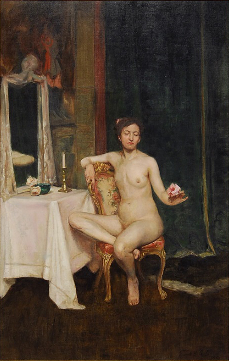 An Evening's Reminiscence (1901) by Frank B. A. Linton.